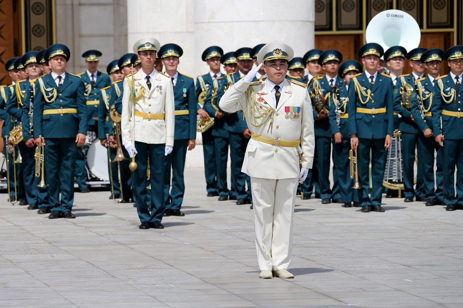 Closing ceremony of the international festival "Trumpet of Peace 2016" (Kazakhstan, Astana)